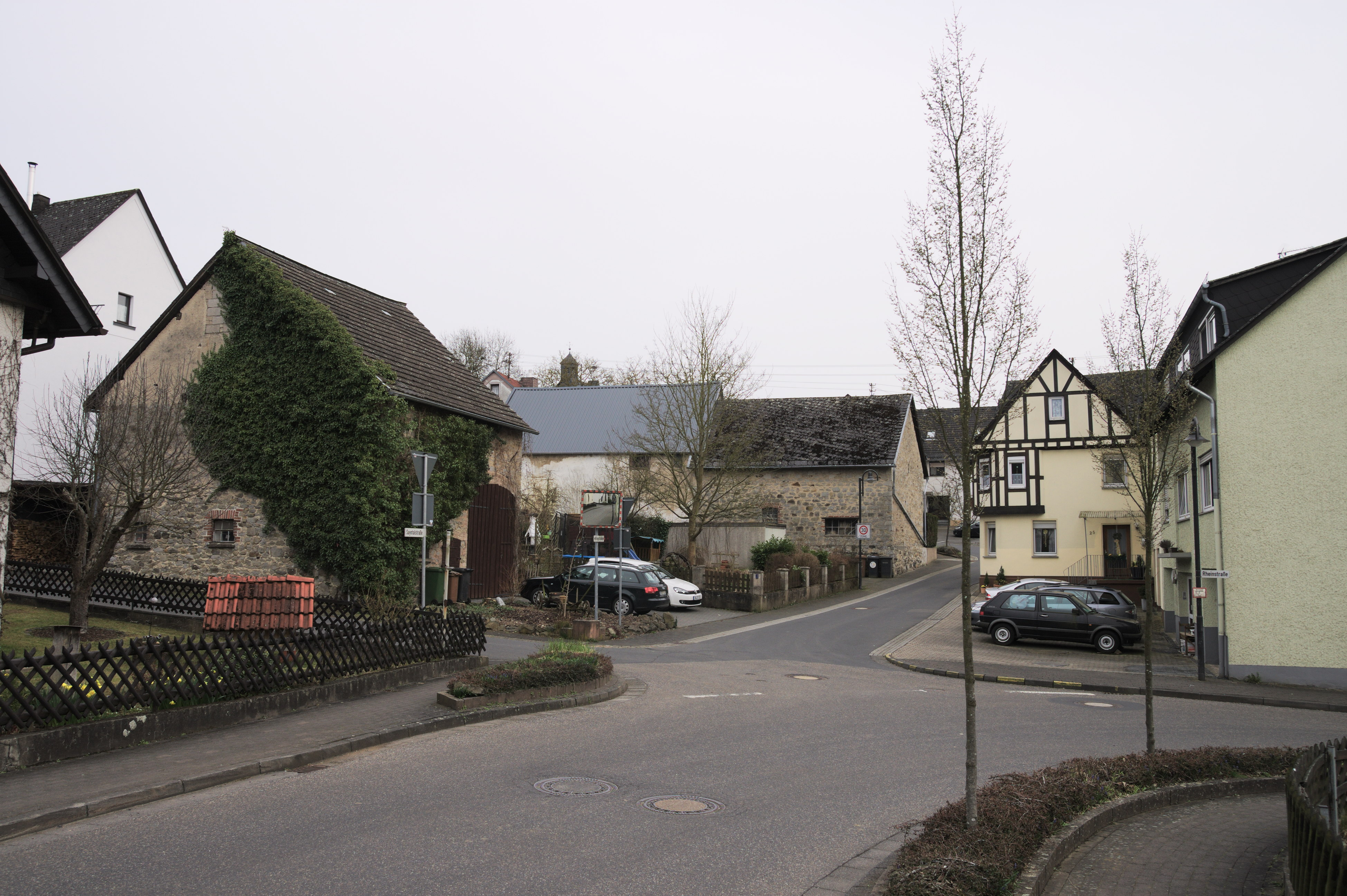 Impression of the centre of Quirnbach village (Sayntalstraße/Ringstraße junction), Westerwald, Germany